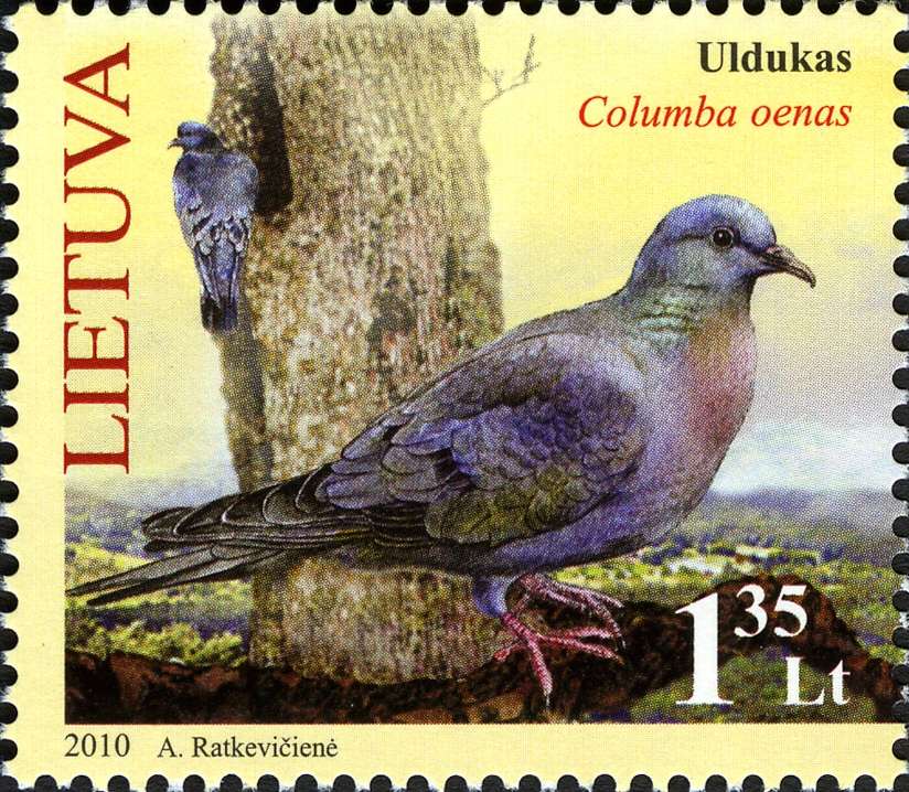 Stamps of Lithuania, 2010